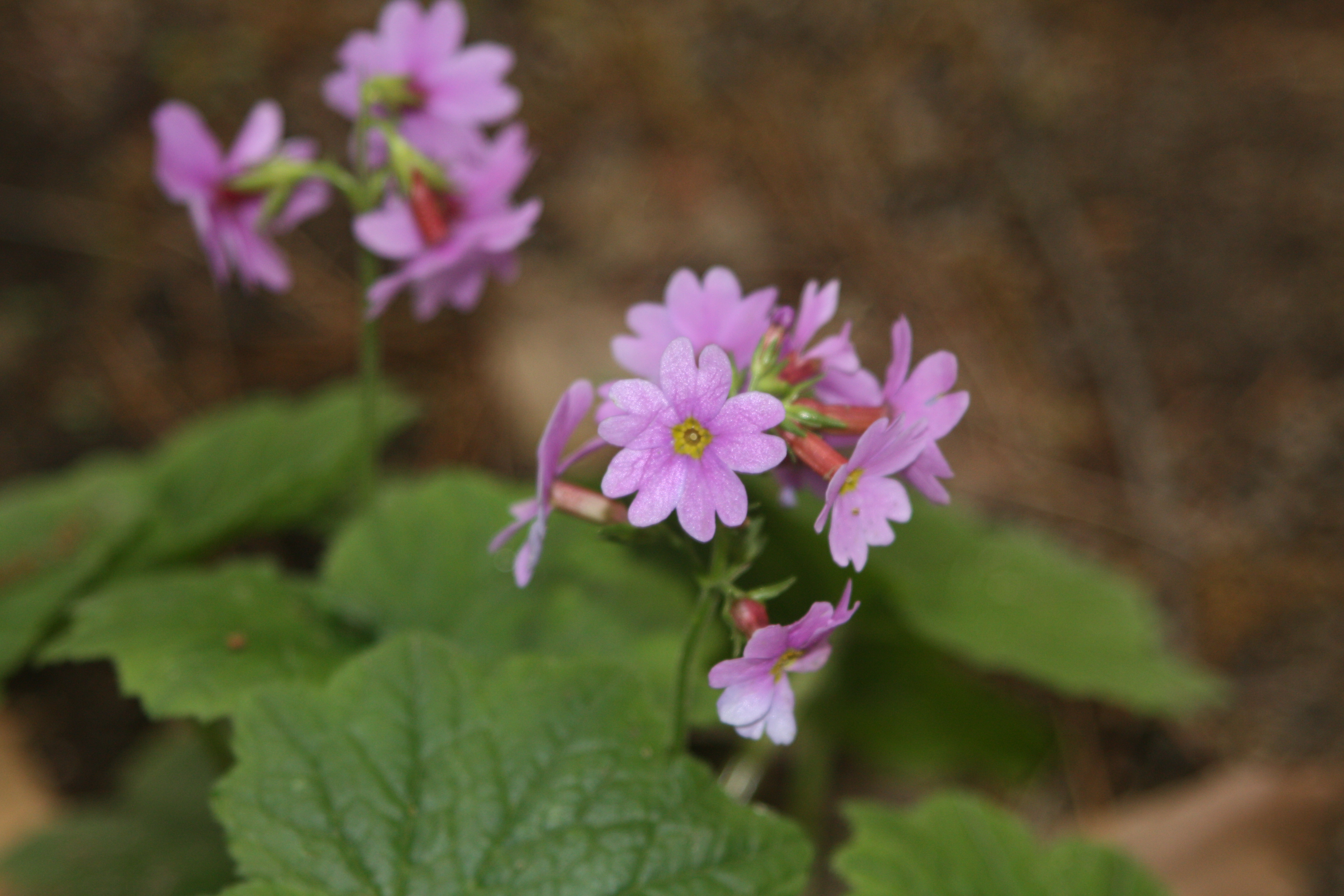 Primula jesoana